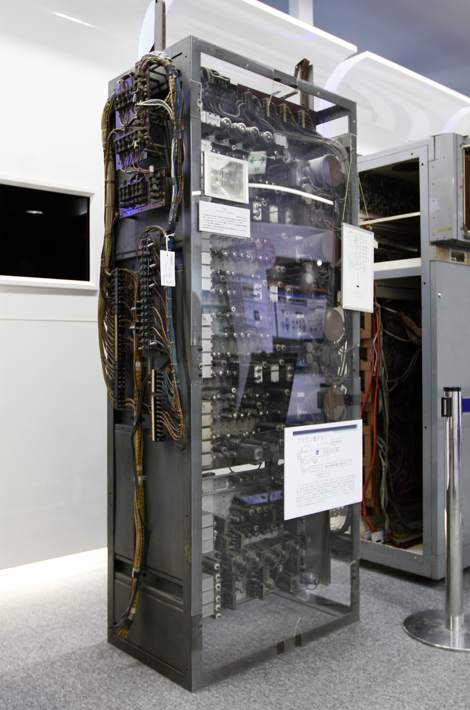 TAC (Tokyo Automatic Computer) is an early computer in Japan, co-developed by Tokyo University and Toshiba. The pictured model was developed in 1959.